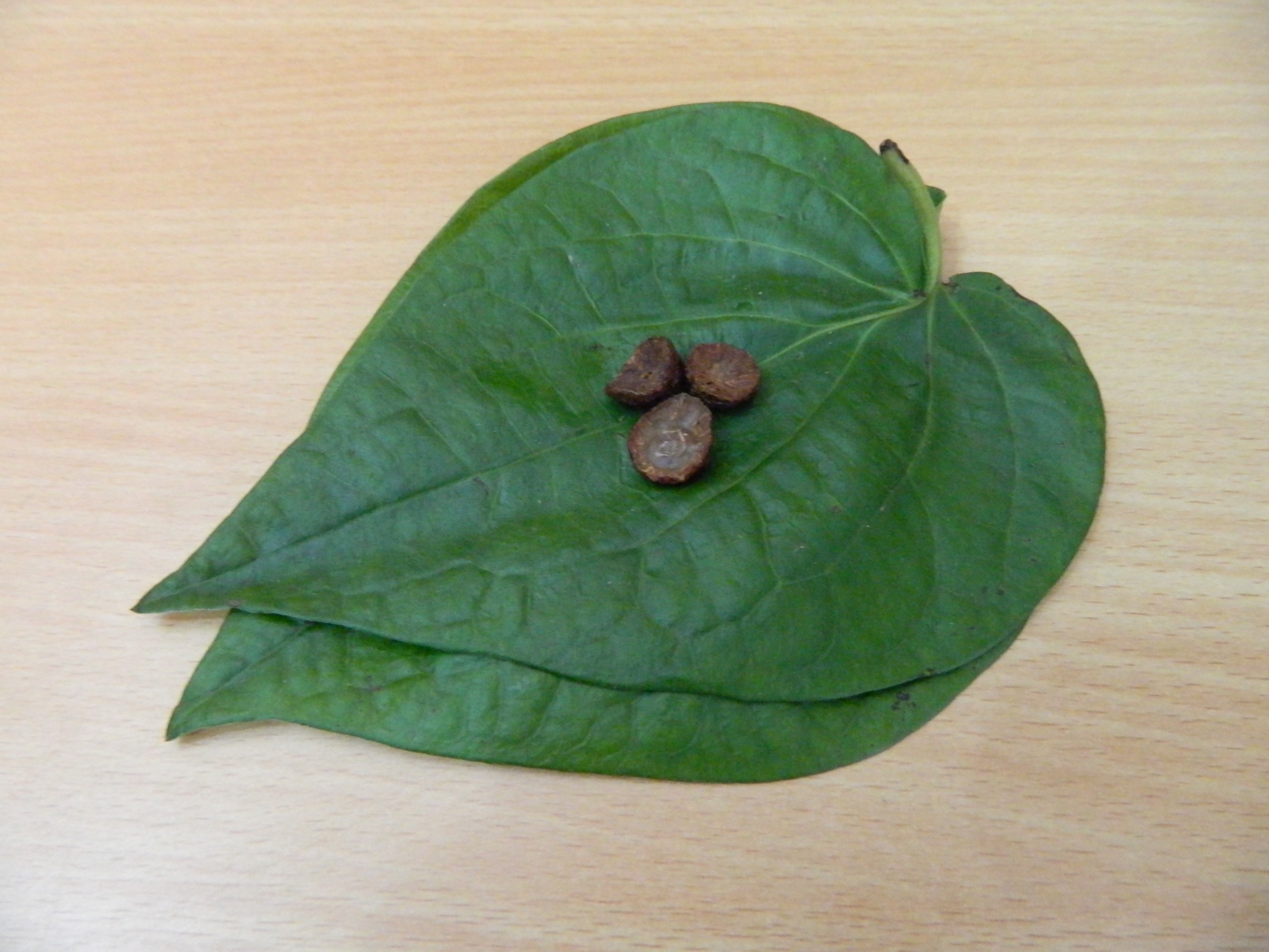 A aesthetic betel leaf